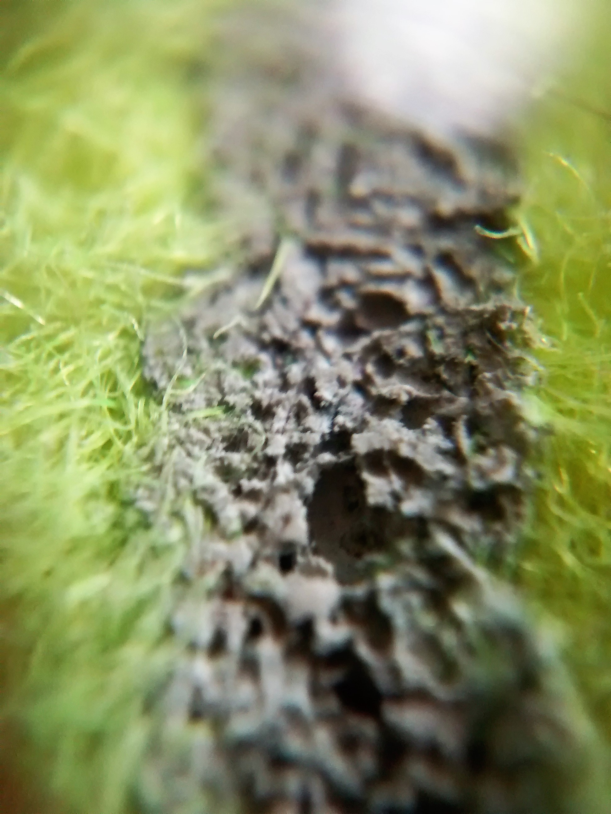 Tennis ball under a microscope